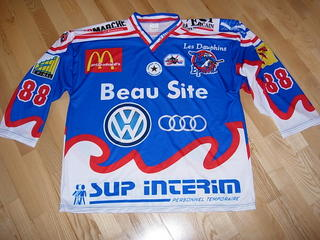 Ice hockey jersey of Dauphins d'Épinal (Ligue Magnus)